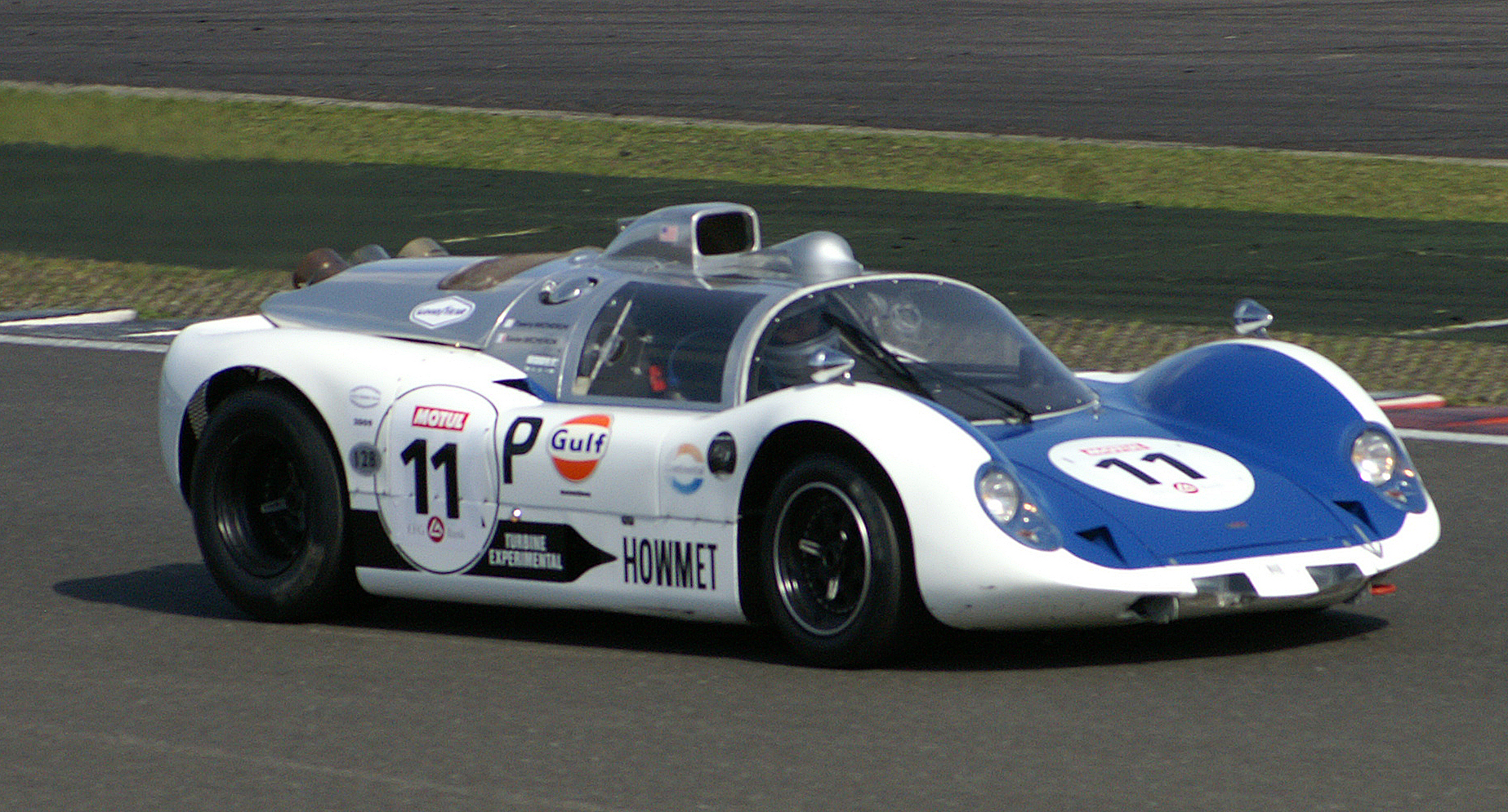 1967 Howmet TX, a turbine car, at Silverstone Classic Endurance Car Racing in September 2009